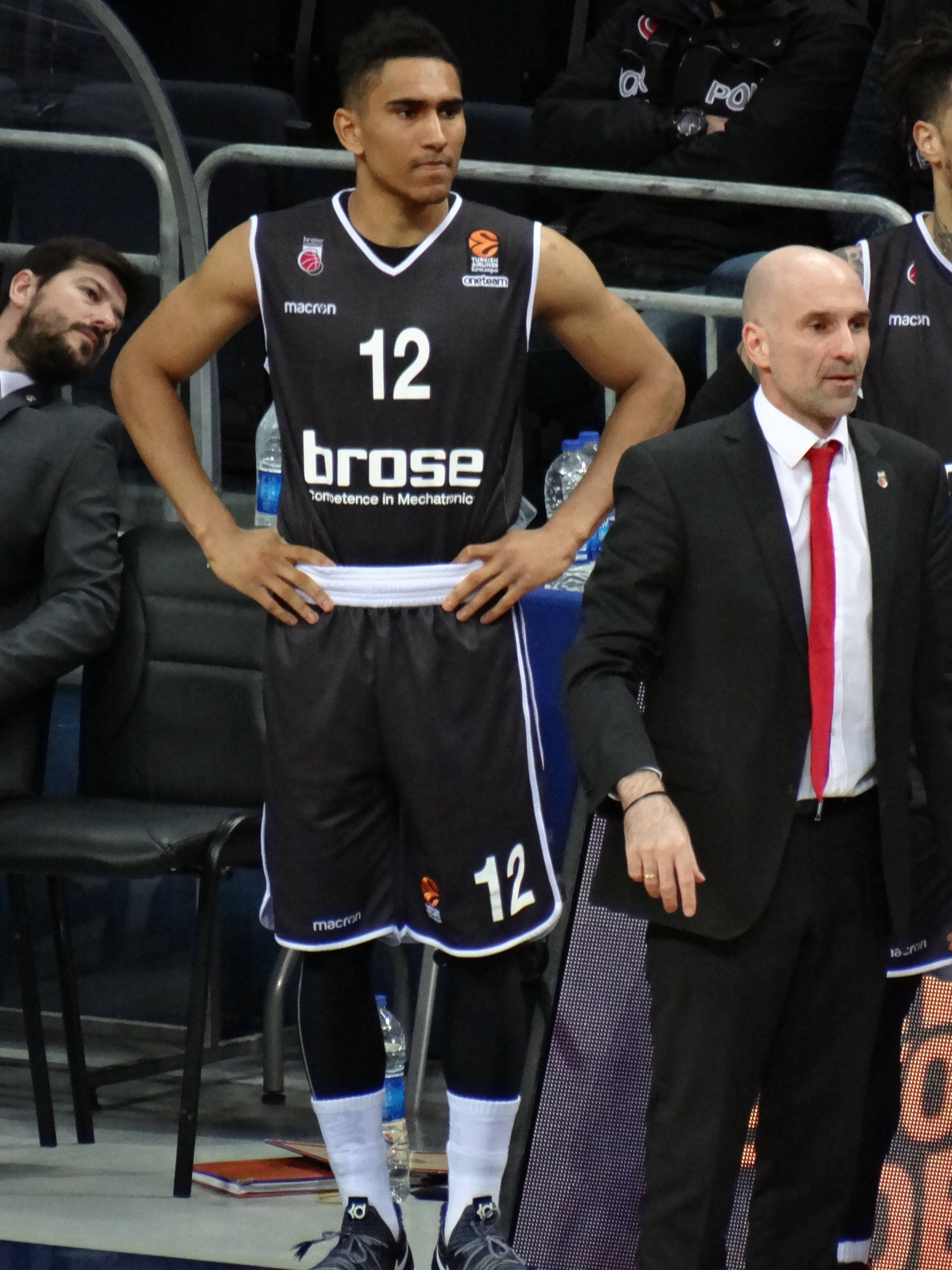 Maodo Lô 12 Brose Bamberg EuroLeague 20180209